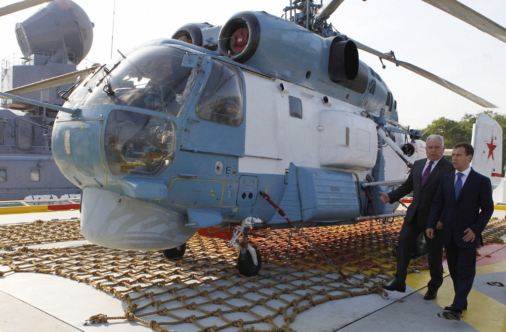 “Russian President Dmitry Medvedev on a working visit to Far Eastern Federal District”. June 30, 2011. Russian President Dmitry Medvedev, right, aboard the "Komandor" patrol vessel. Second from right is deputy head of the Federal Security Service Vladimir Pronichev, head of the Russian Border Guard Service.